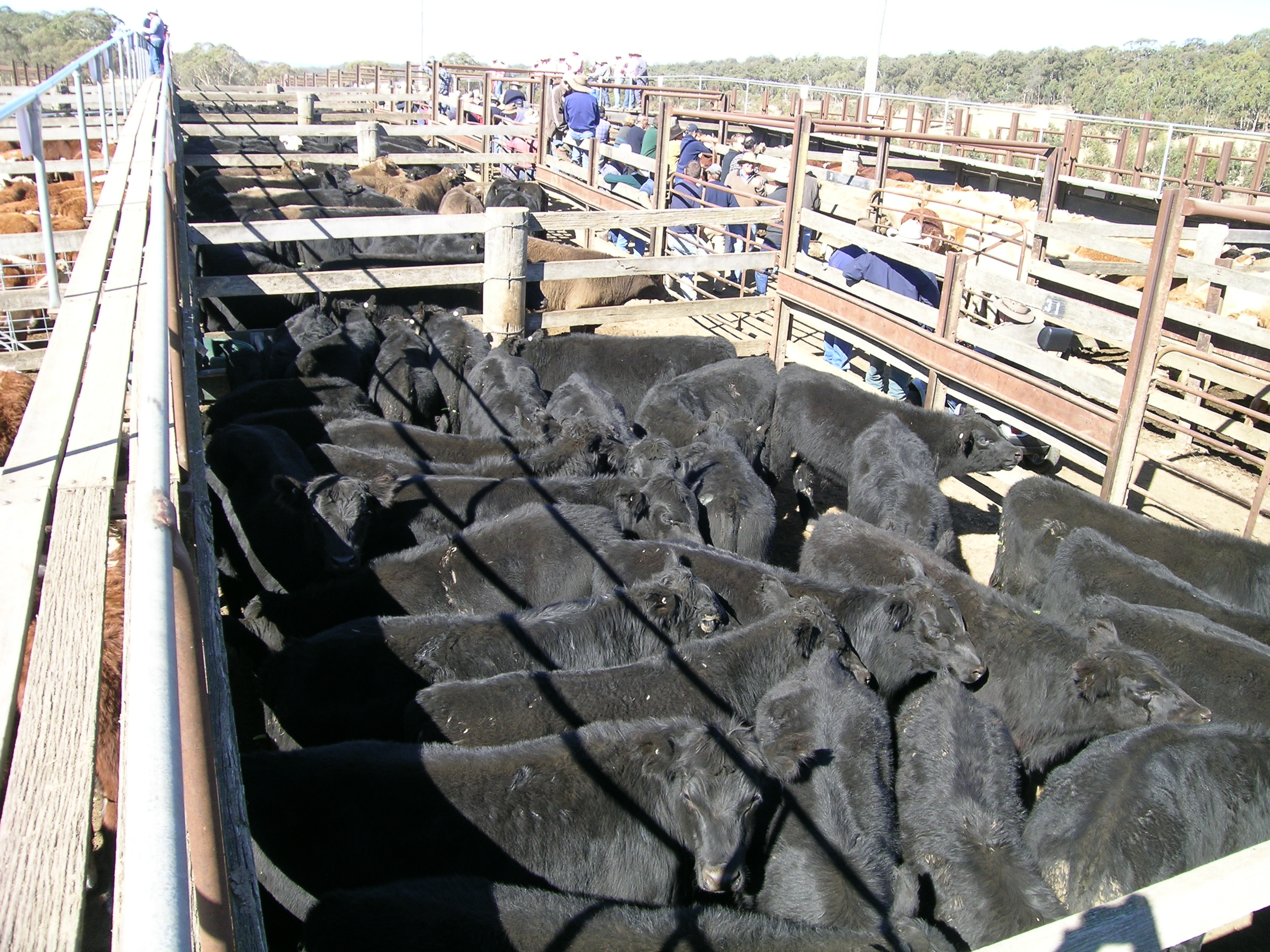 Vendor bred weaners at an auction of 3,800 grass-fed, weaners, Walcha, NSW.